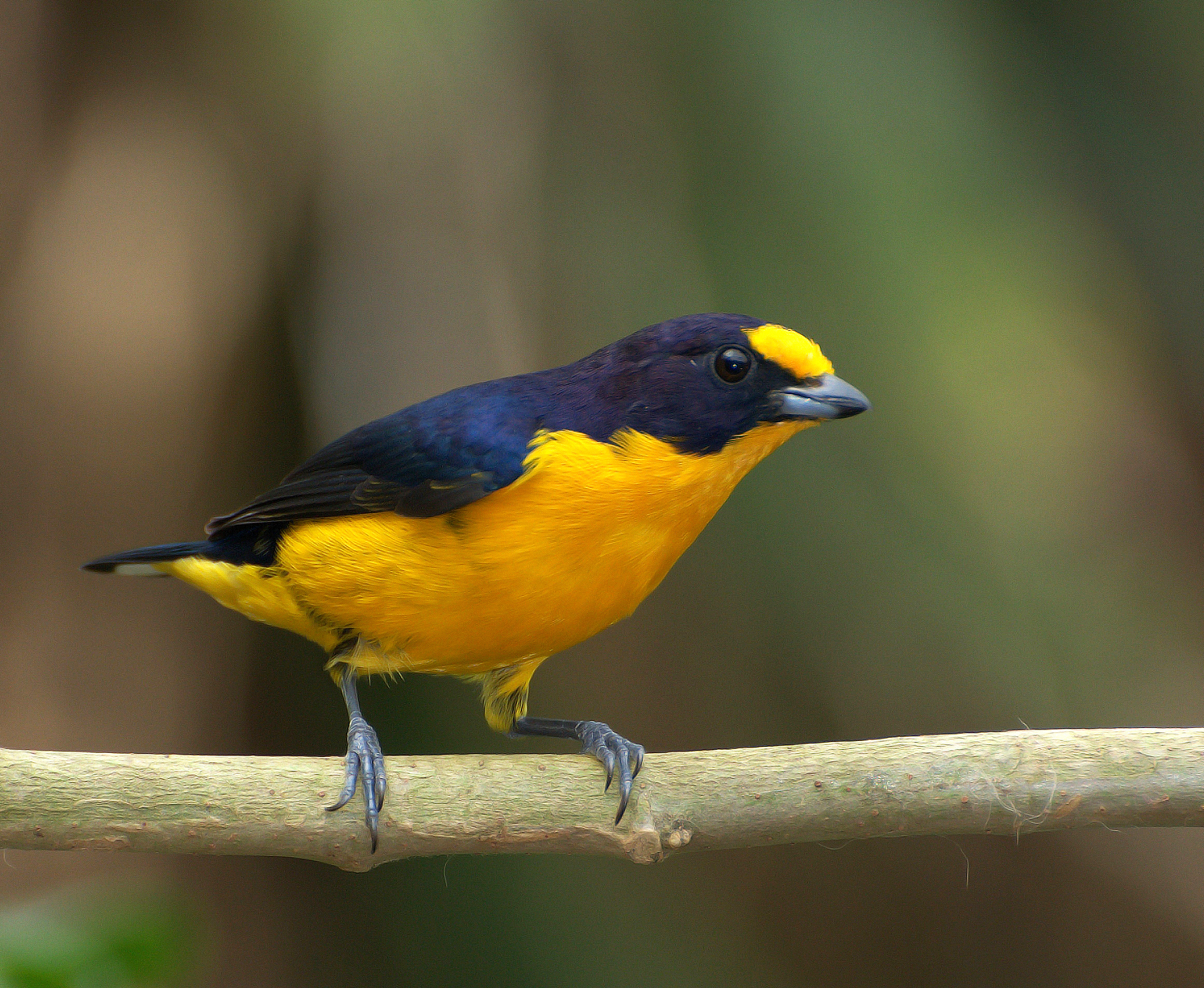 Violaceous Euphonia, male